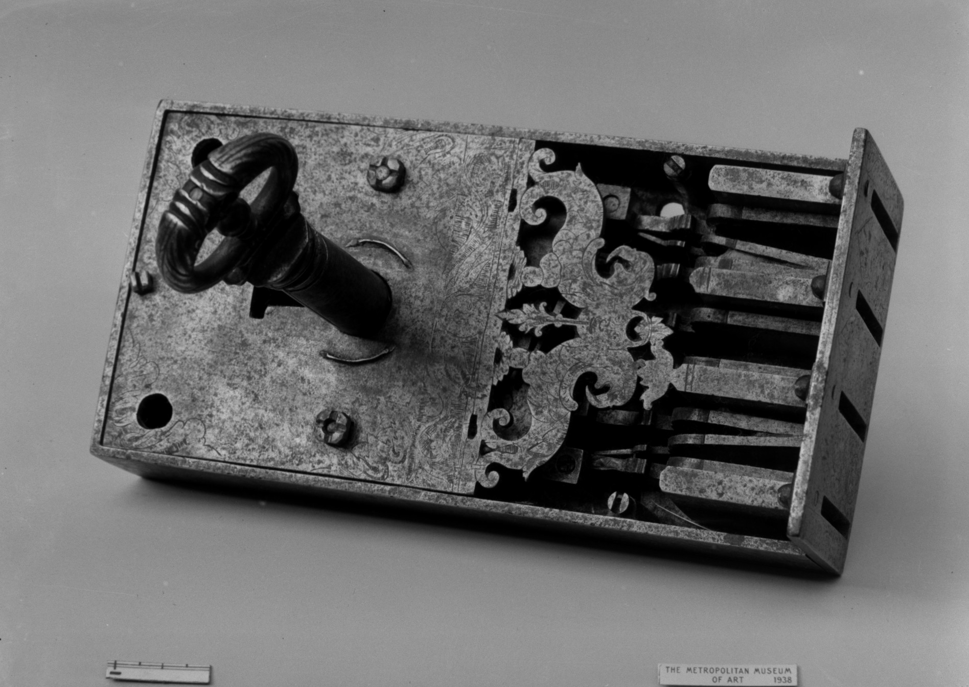 French; Rim lock and key; Metalwork-Iron